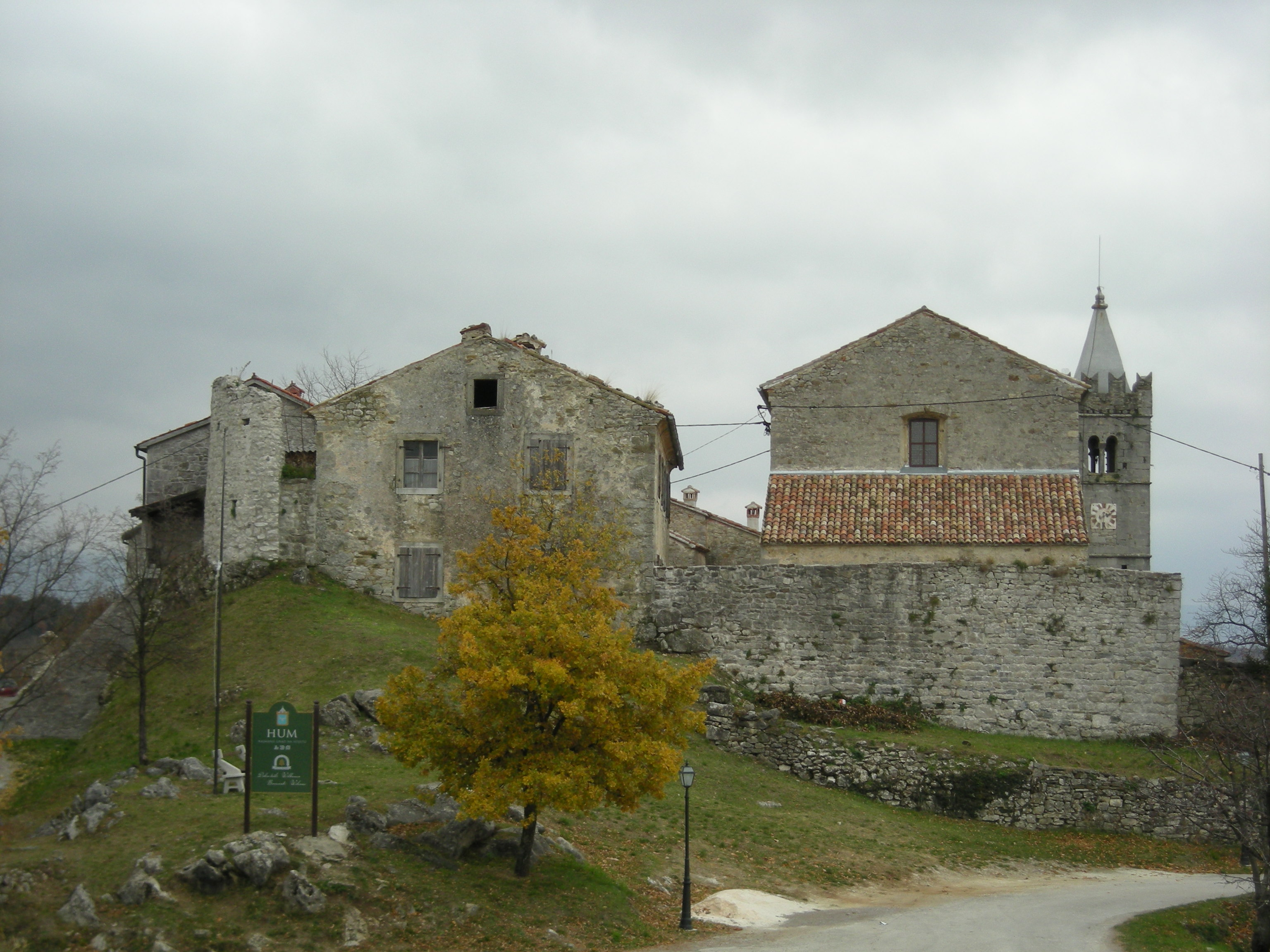 Hum, Istria, Croatia